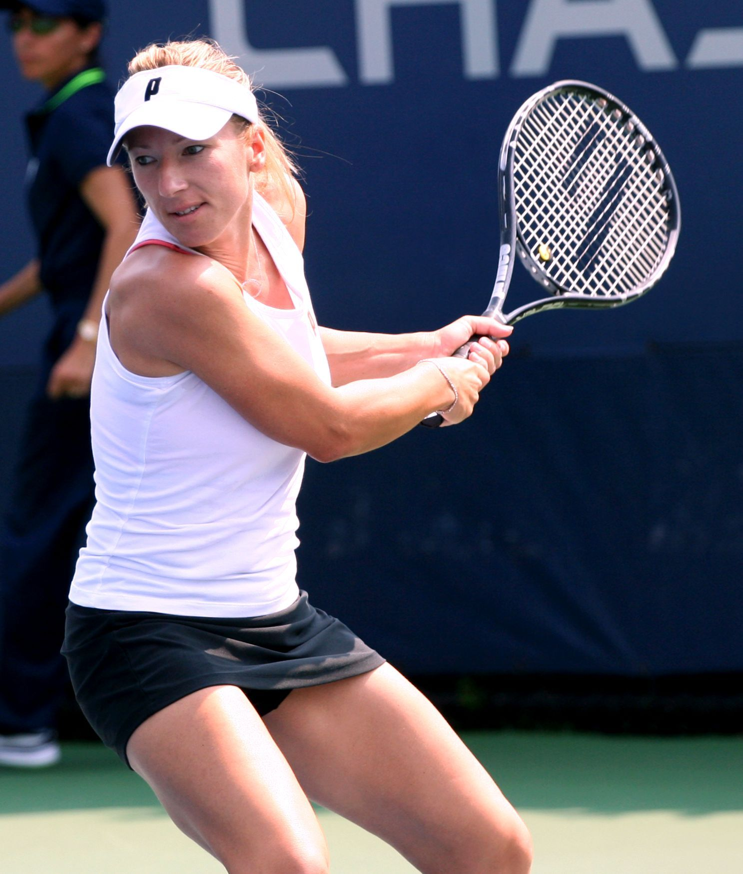 Kveta Peschke at the US Open (2011)